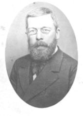 Johannes Henrik Georg Tauber (1827-1892), Danish newspaper editor and politician, MP